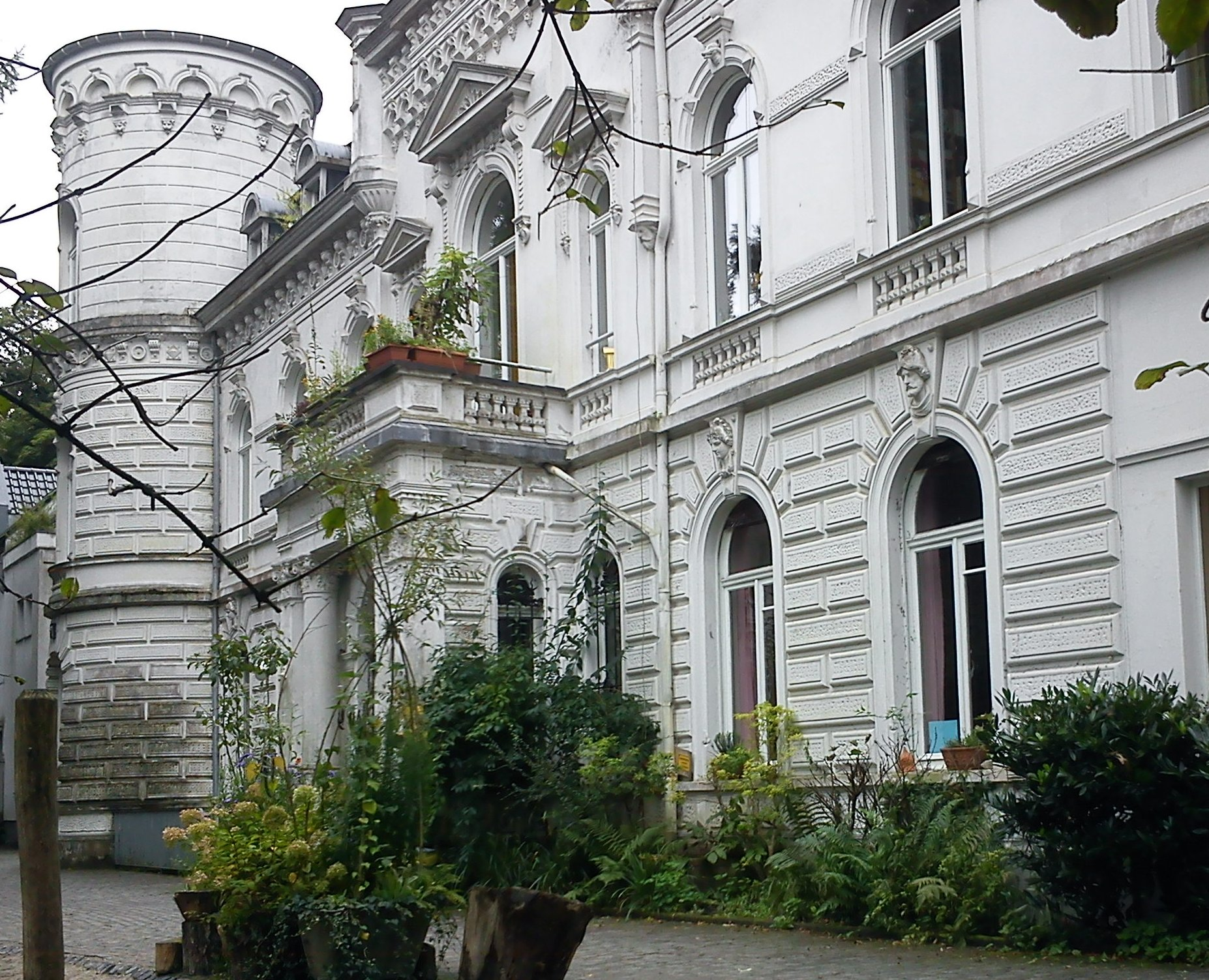 manor house in the Von-Halfern-Park in Aachen